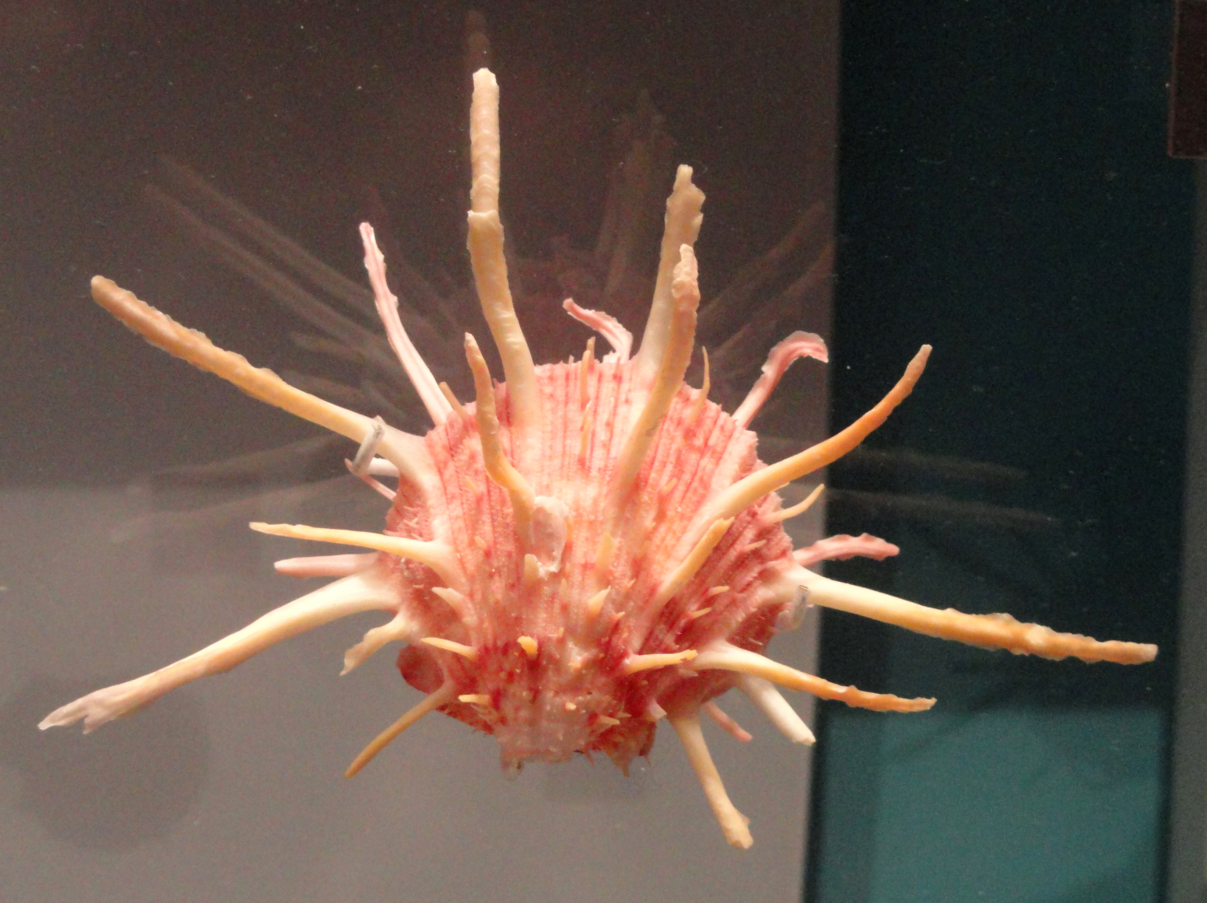 Exhibit in the Royal Ontario Museum, Toronto, Ontario, Canada. Photography was permitted in the museum. I took this photograph and release it into the public domain.